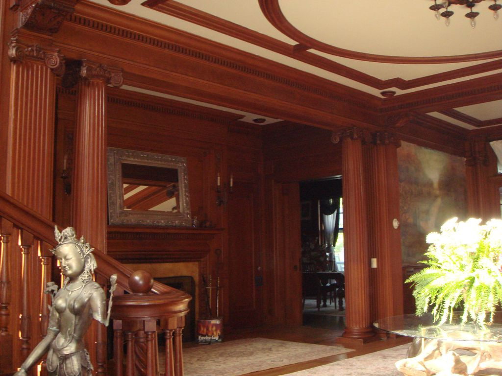 Image of the house at 13 Mansion Road known as The Charles Winship House